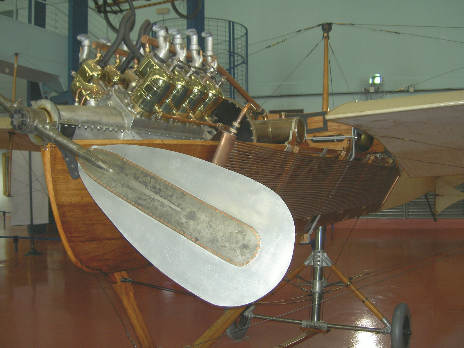 Antoinette VII (French plane, for military use)